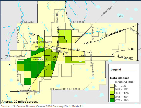 This map shows the city of Amarillo, USA by average number of inhabitants per square mile of land in 2000. Edited by the uploader to make it into a single image.